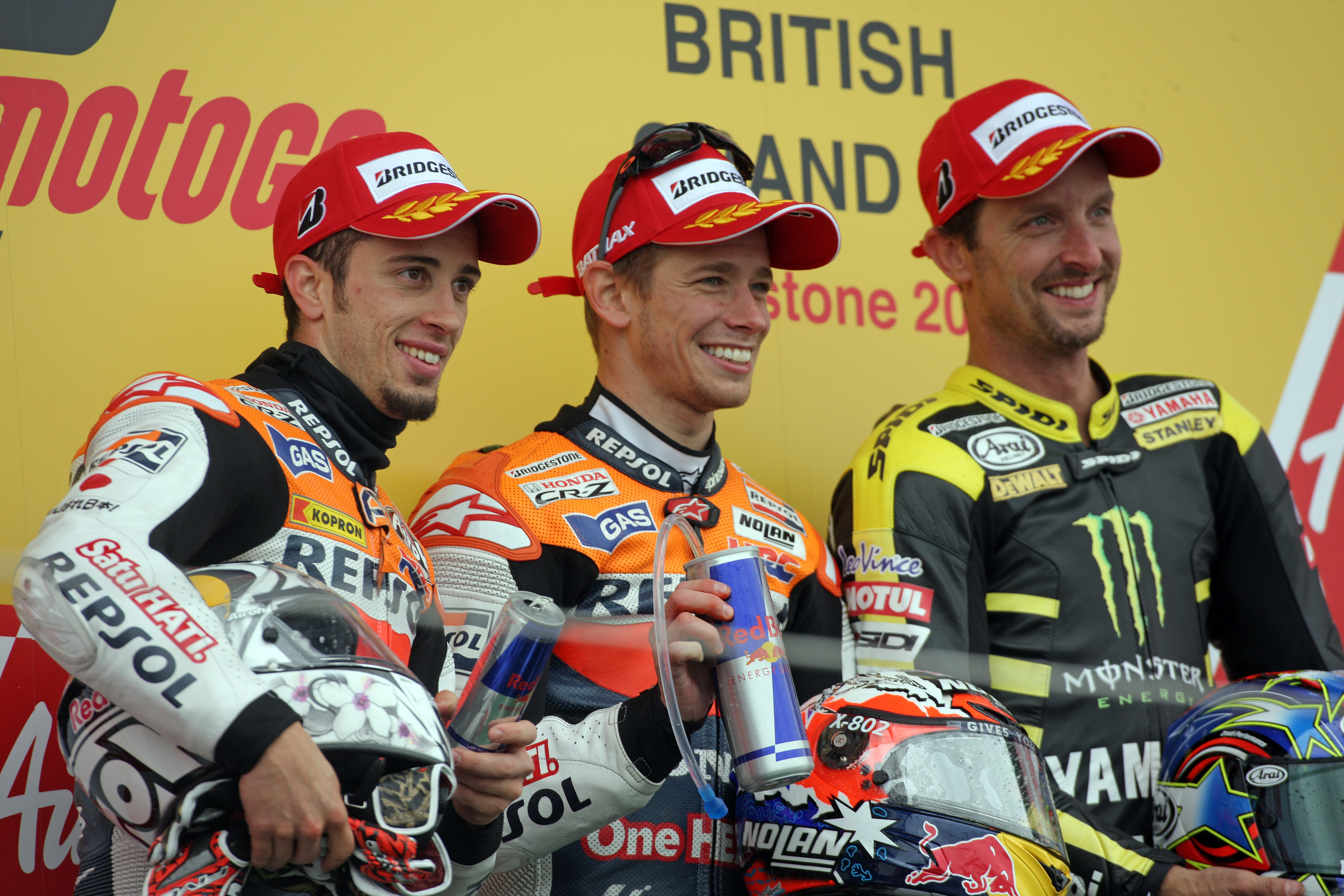 Andrea Dovizioso, Casey Stoner and Colin Edwards, posing for photo's on the podium after finishing in second, first and third place at the 2011 British Grand Prix.